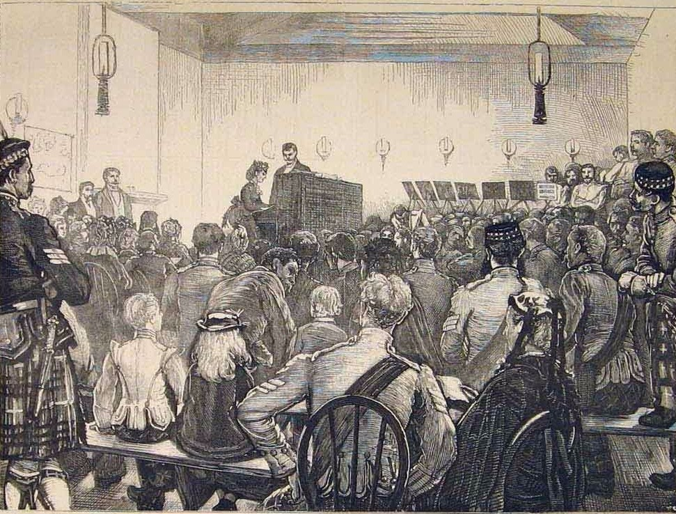 Engraving from The Graphic, 1871. A penny reading at the headquarters of the 71st Highlanders, Aldershot, England.